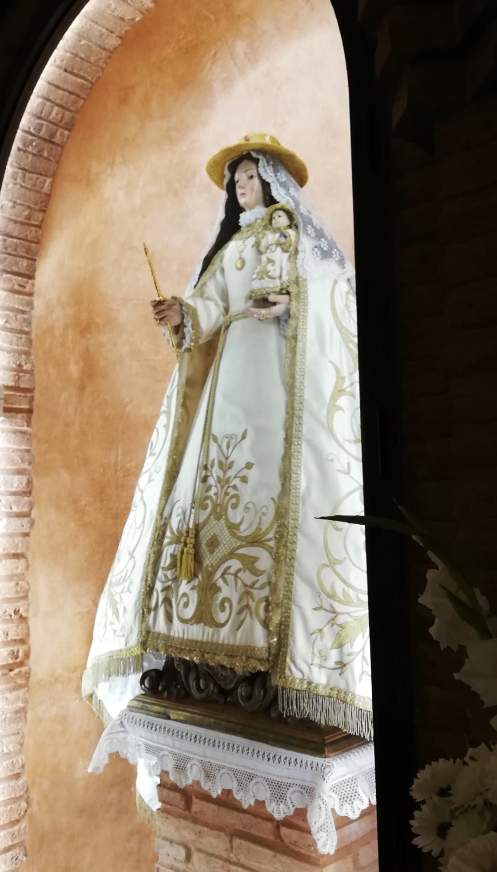 Image of Santa María del Monte patron of Bolaños de Calatrava (Ciudad Real) Spain.